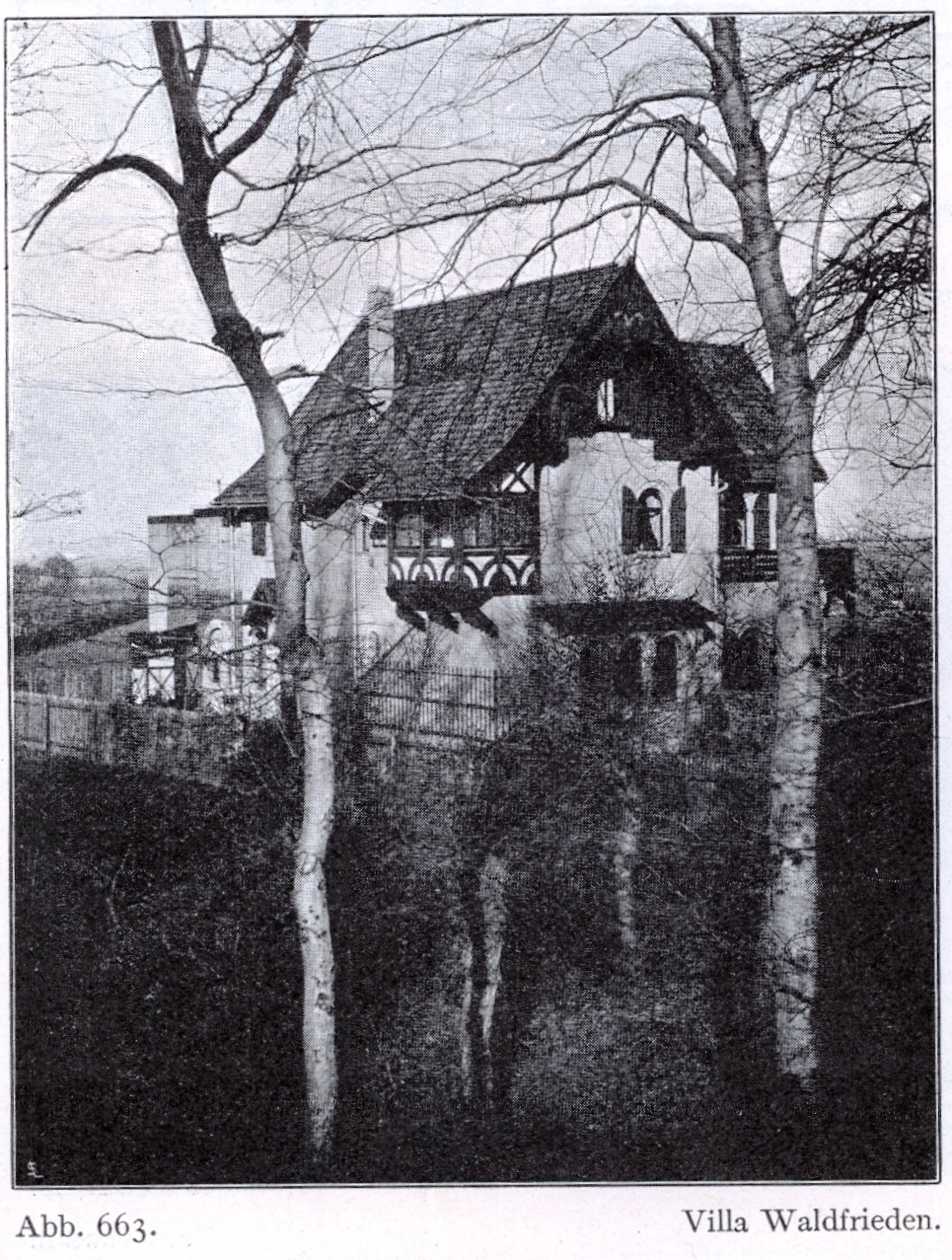 Villa Waldfrieden in Düsseldorf, erbaut vor 1904, Entwurf Regierungsbaumeister Schleicher, Bauherr Maler u. Professor Carl Gehrts.jpg